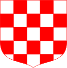 NDH roundel